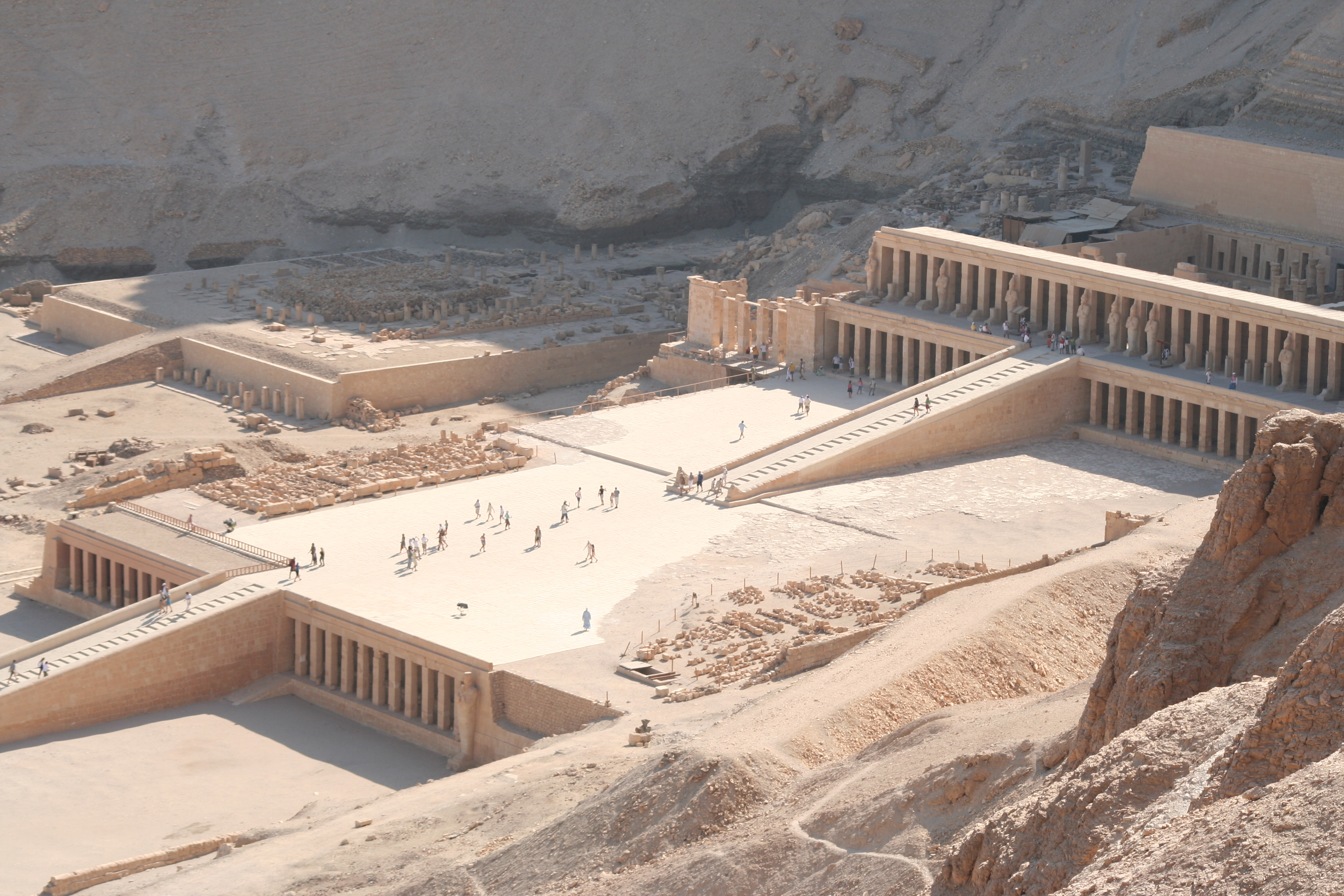 Deir El Bahari - Hatshepsut, New Kingdom